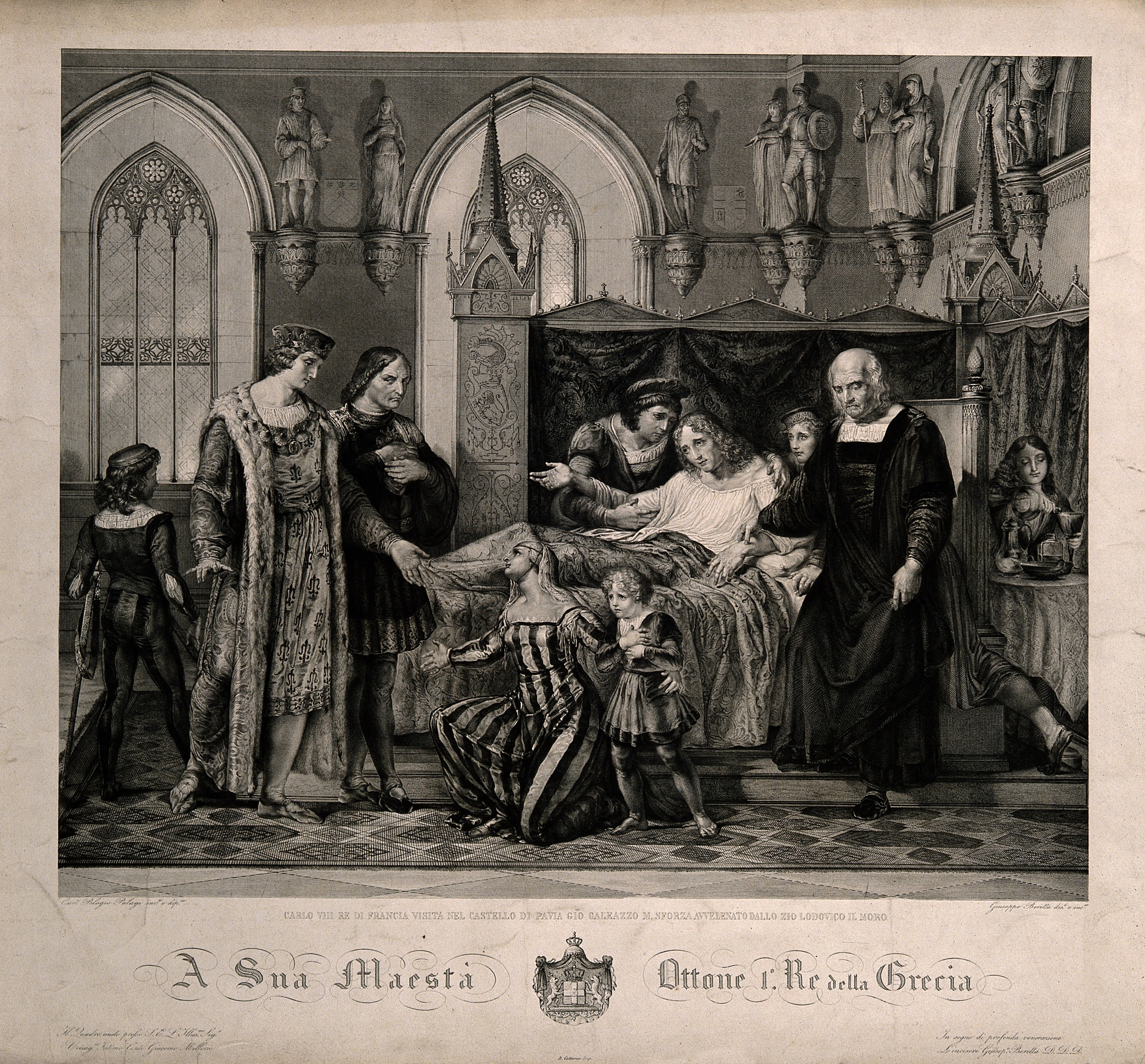 Charles VIII visiting the deathbed of Gian Galeazzo Sforza at the Palazzo Ducale, Pavia, 1494. Engraving by G. Beretta after P. Pelagi. Iconographic Collections Keywords: Ludovico Sforza; Giuseppe Beretta; Charles; Filippo Pelagio Pelagi; Otto; Gian Galeazzo Sforza